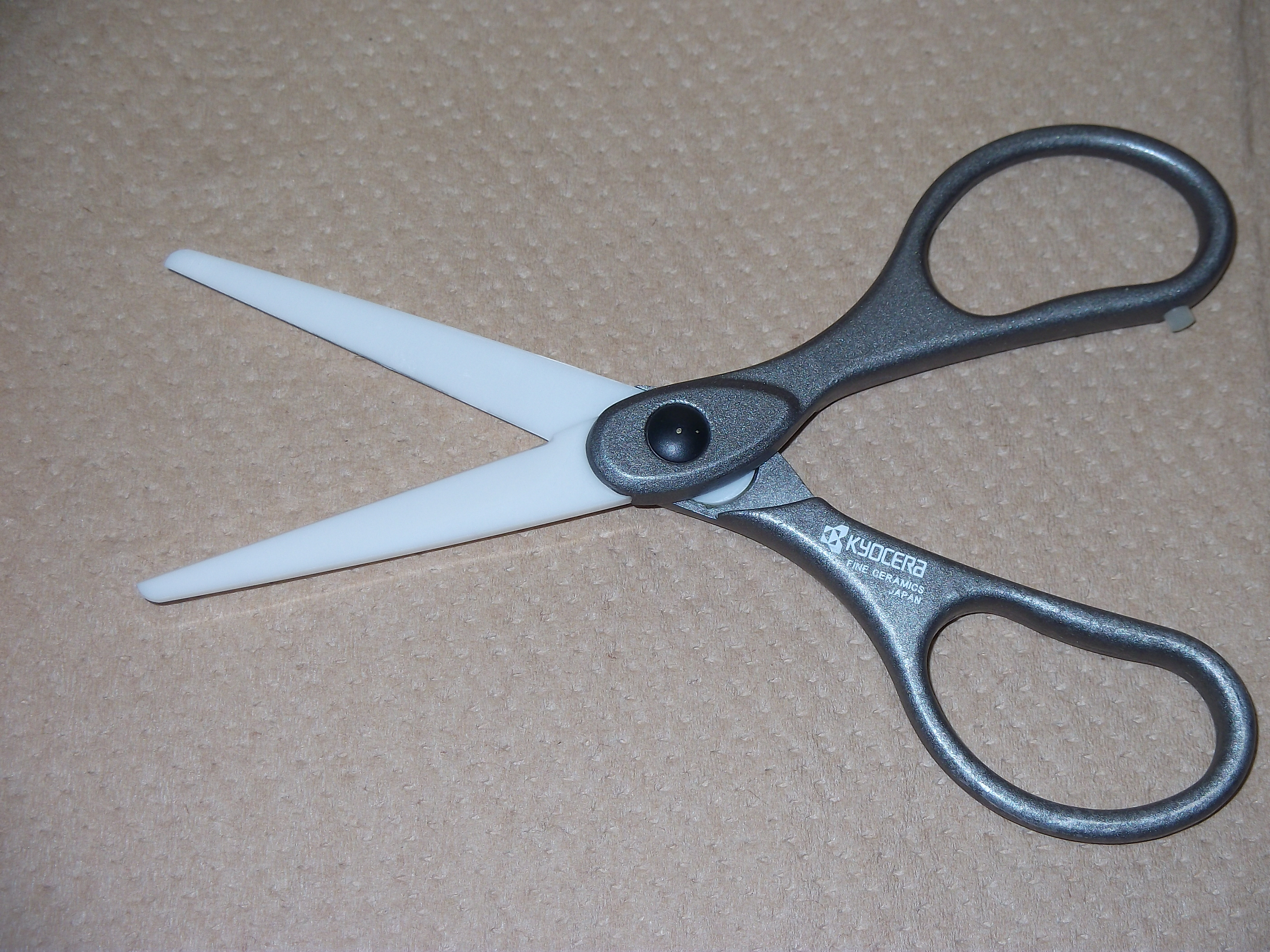 Scissors made from ceramics, by Kyocera.